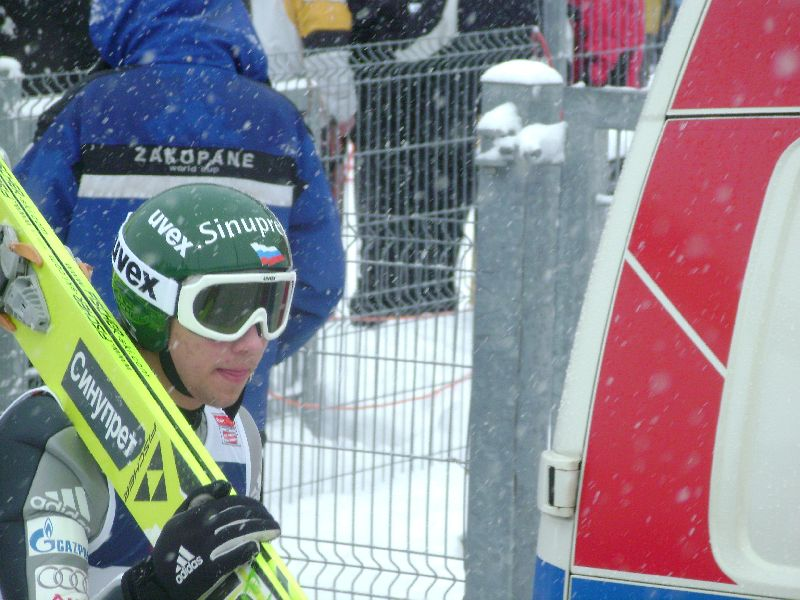 ski jumper Pavel Karelin from Russia during the World Cup in Zakopane on 27-1-2008